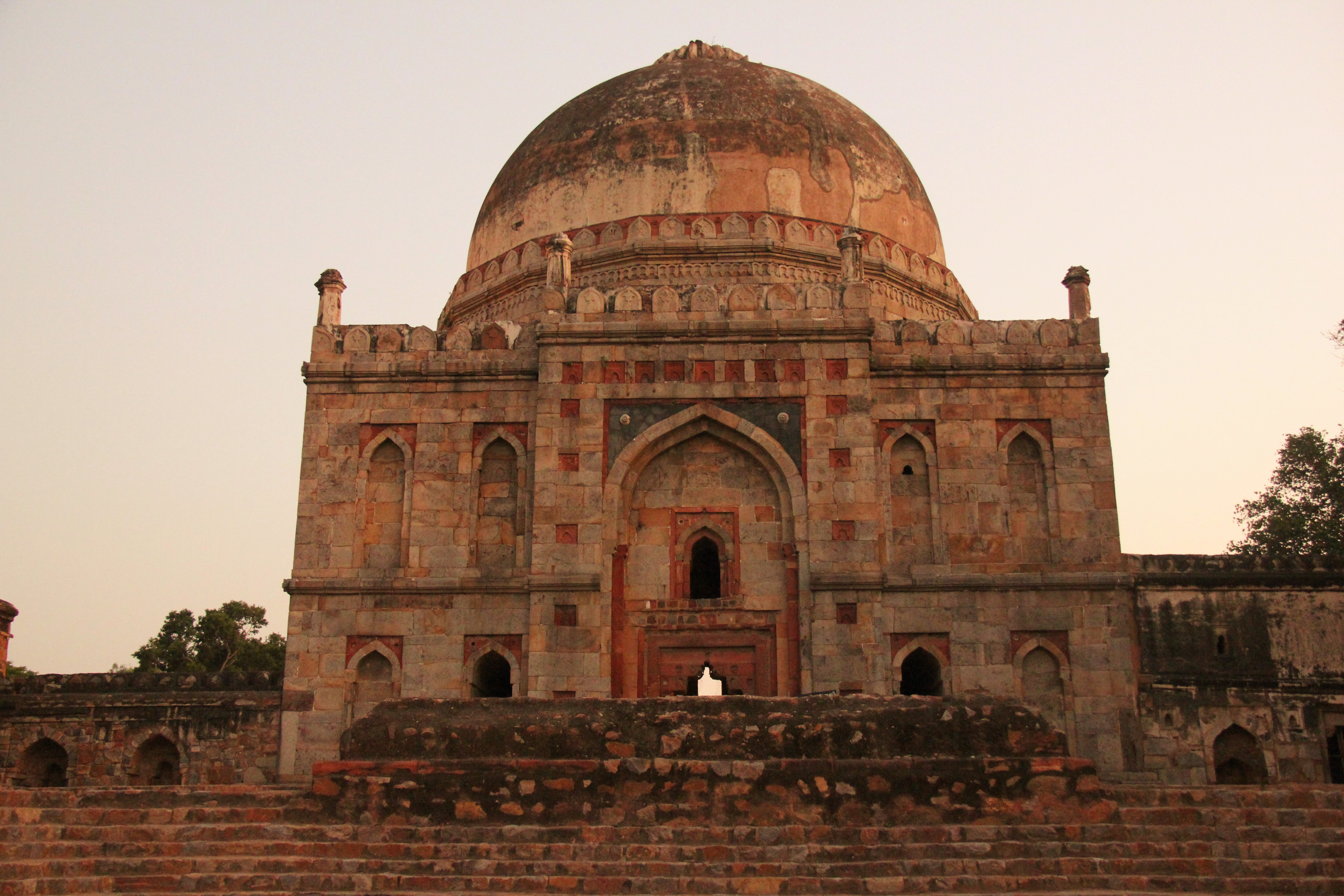 Bara Gumbad front view